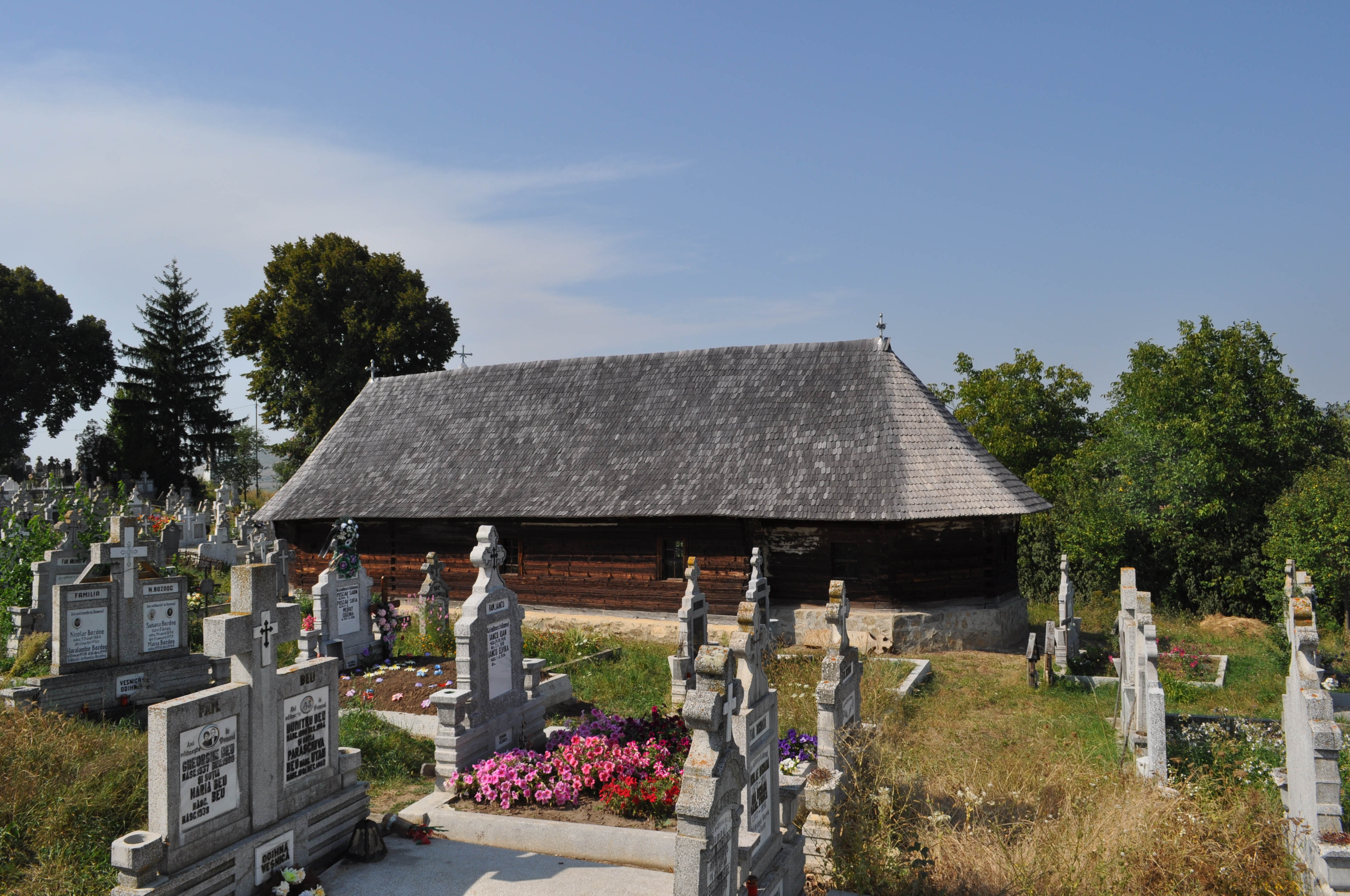 Wooden church in Apoldu de Jos, Sibiu county